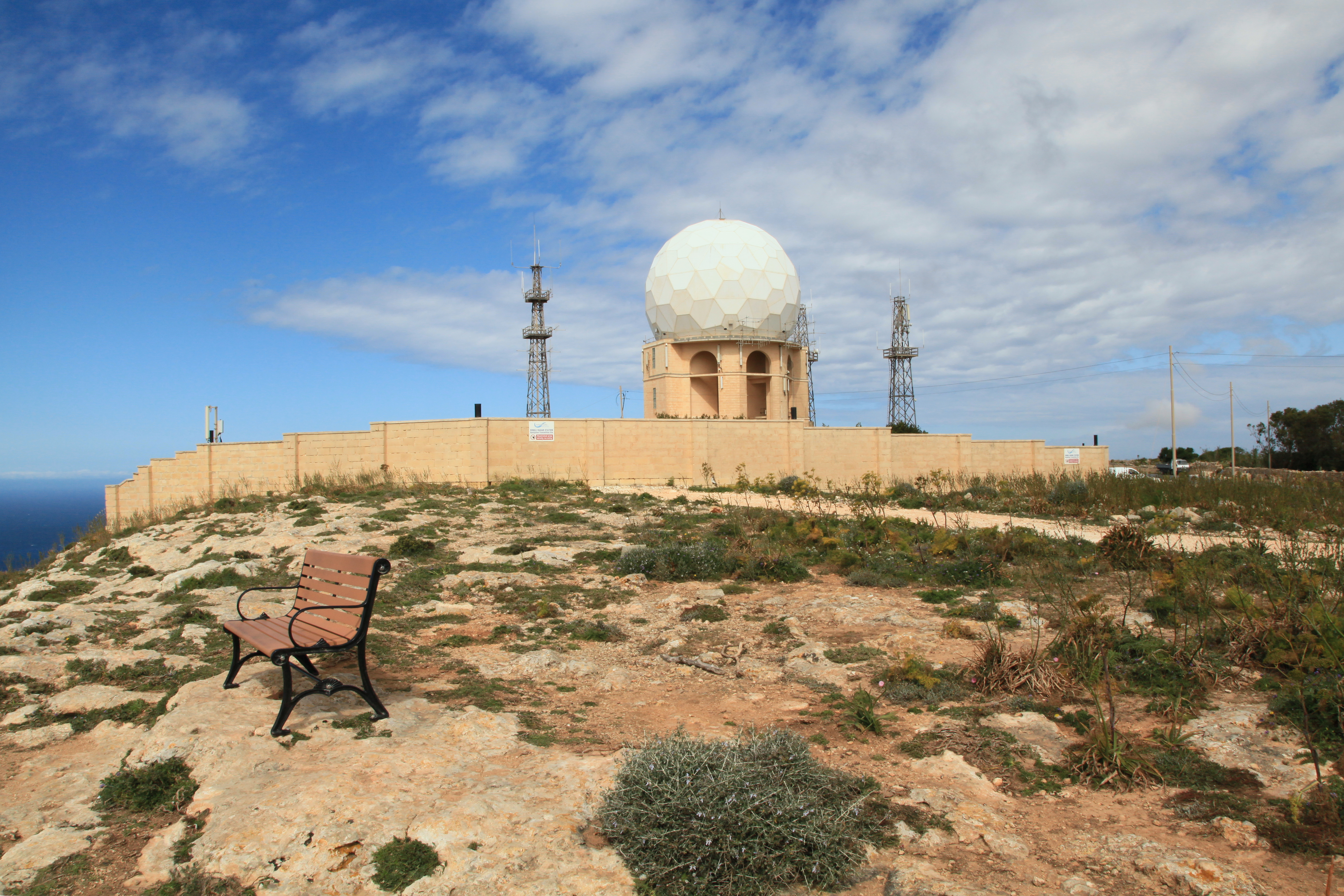 Dingli Aviation Radar at Triq Panoramika in Dingli, Malta